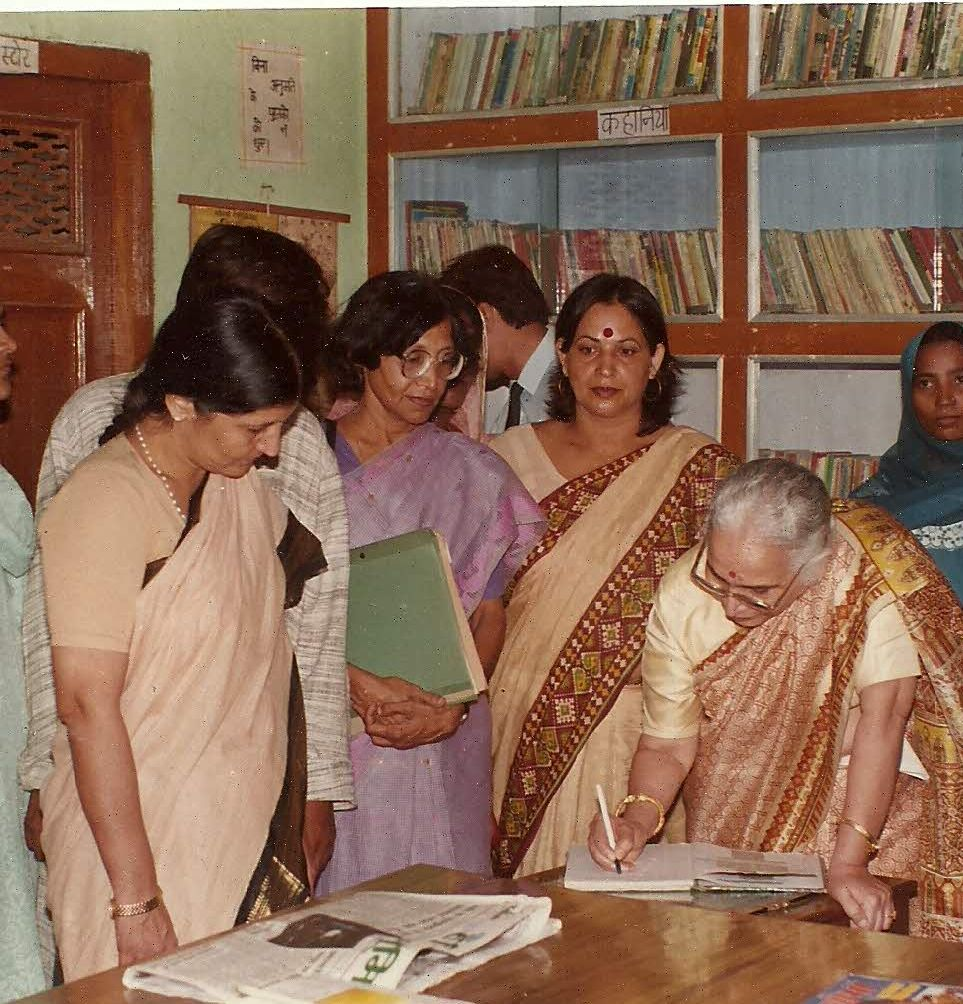 Smt Suman Krishna Kant at Baji's village library